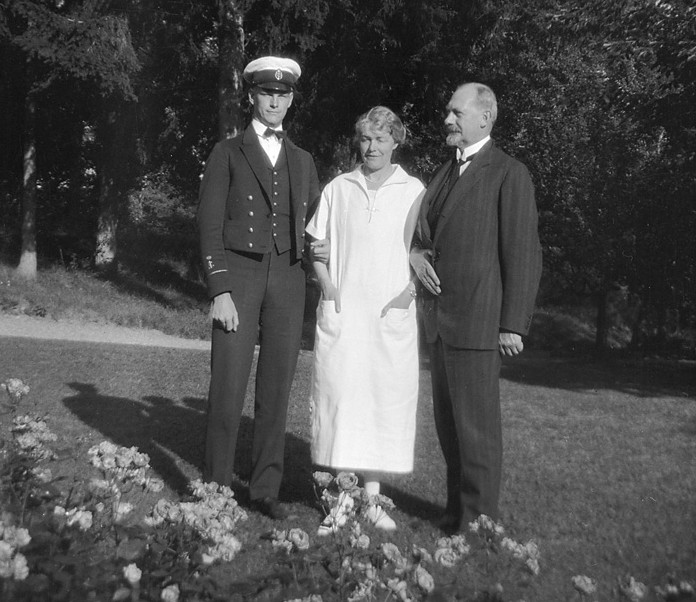 Berit Wallenberg's family at their home Viken on Lovö Island west of Stockholm city. Her younger brother Carol, her mother Beatrice, born Keiller, and her father Oscar.